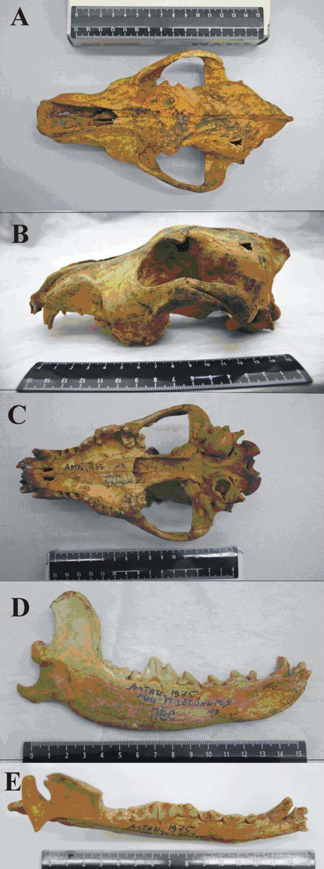 . The Razboinichya canid. A) aerial view, B) profile, C) palate, D) left mandible, E) left lower tooth row (scale on ruler in cm). Sub-triangular hole in the skull is the place of initial sampling for 14C dating in 2007.